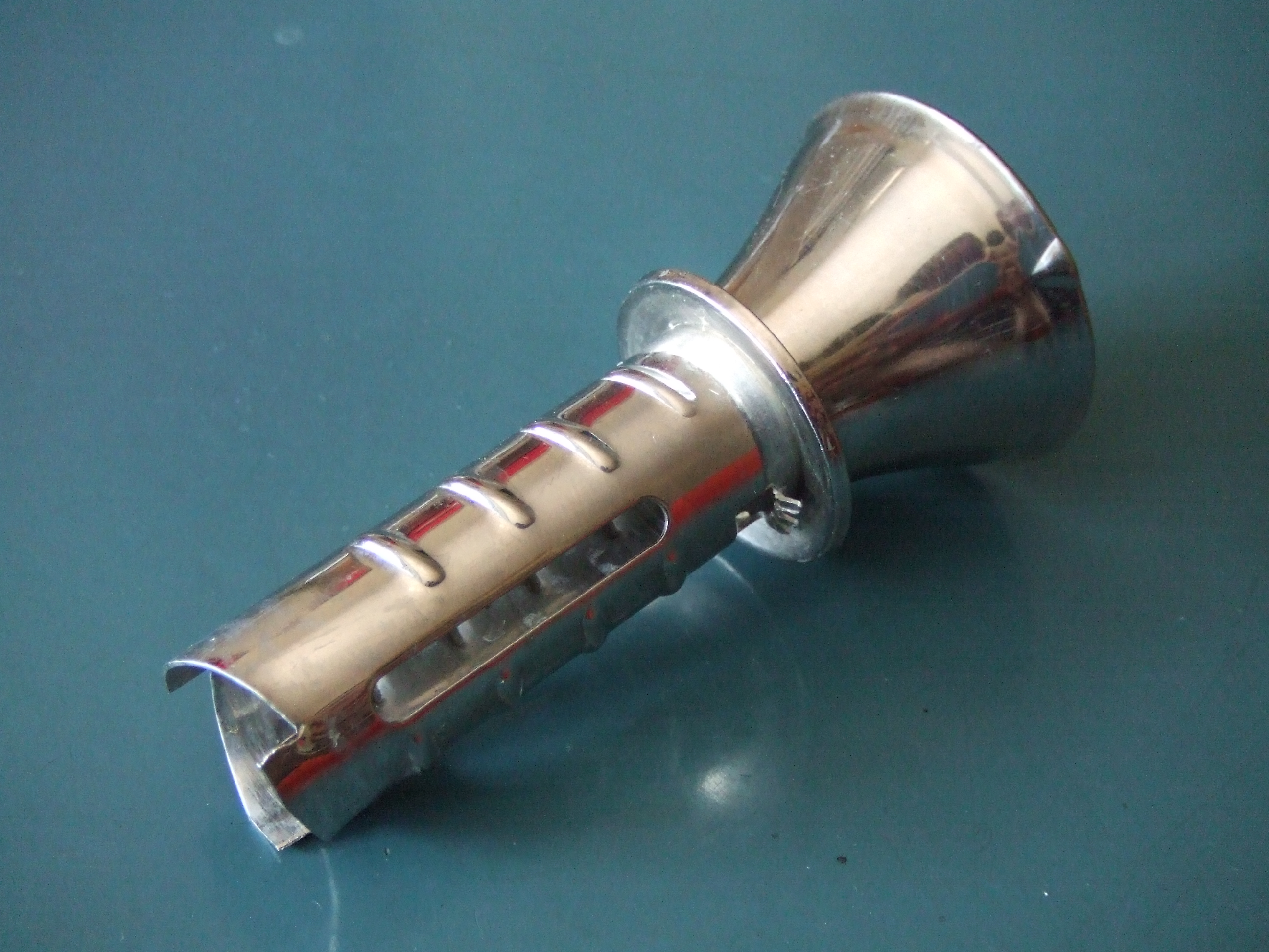 lemon squeezer (screwing method)